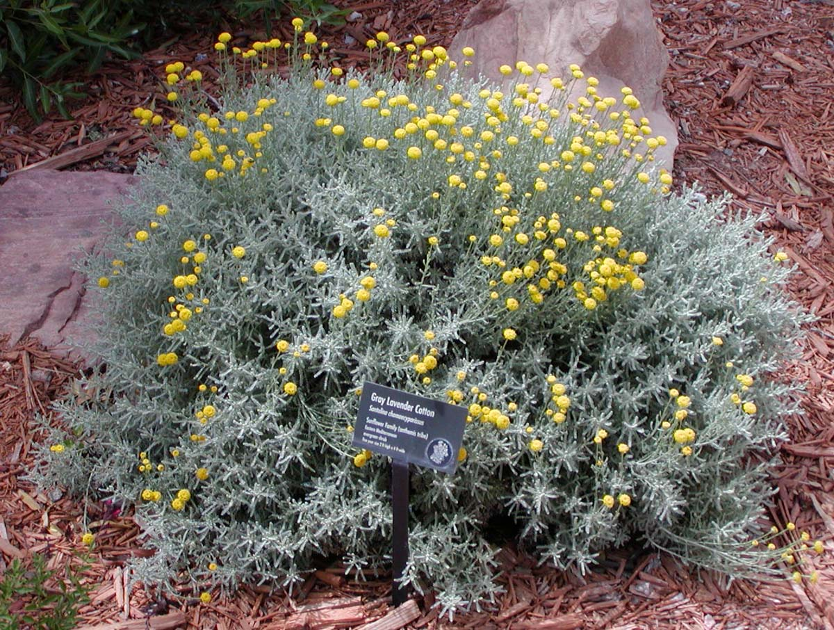 Photo of Santolina chamaecyparissus at the Desert Demonstration Garden in Las Vegas